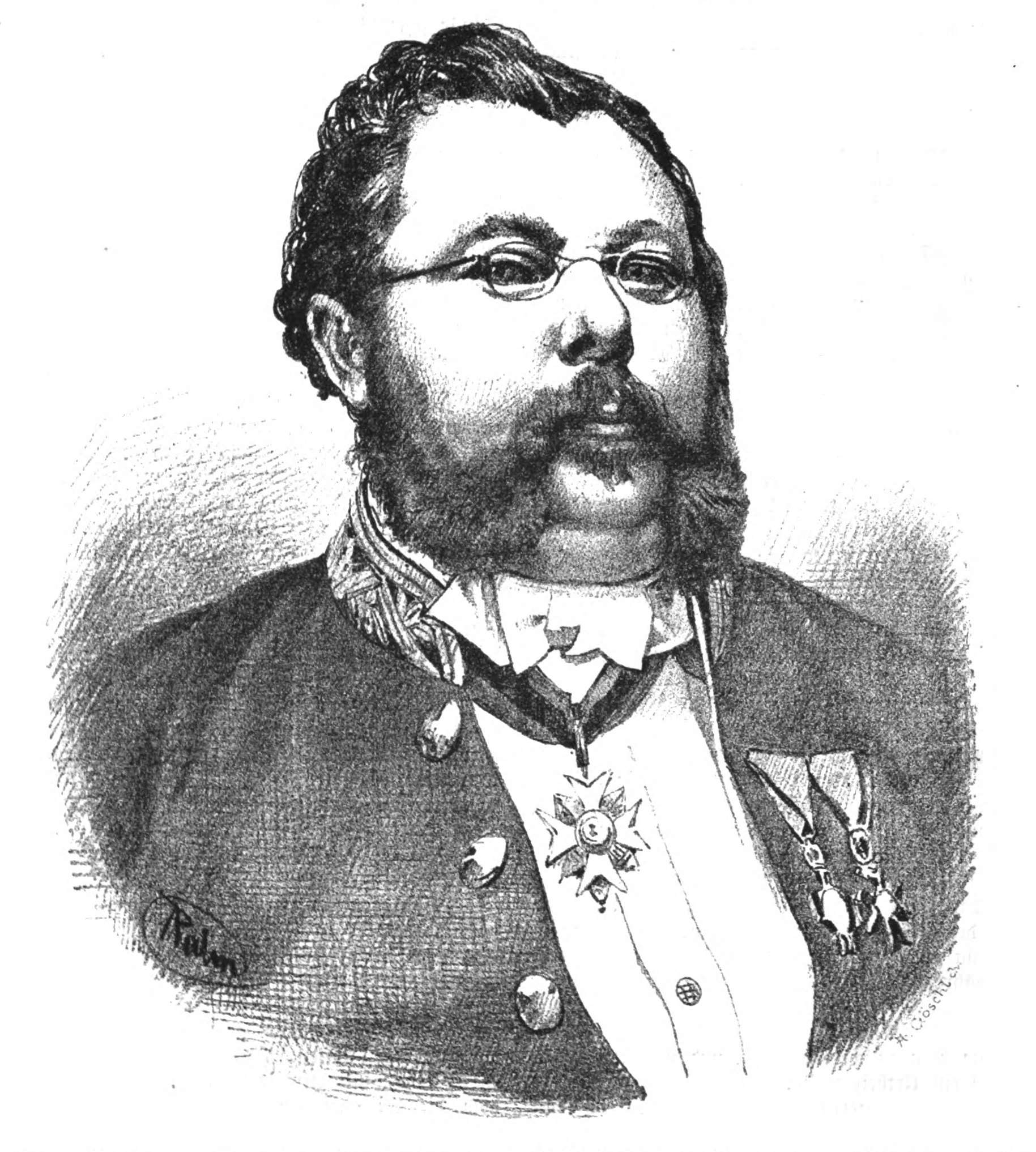 Portrait of the merchant and banker Johann Carl Freiherr von Sothen (1823–1881)